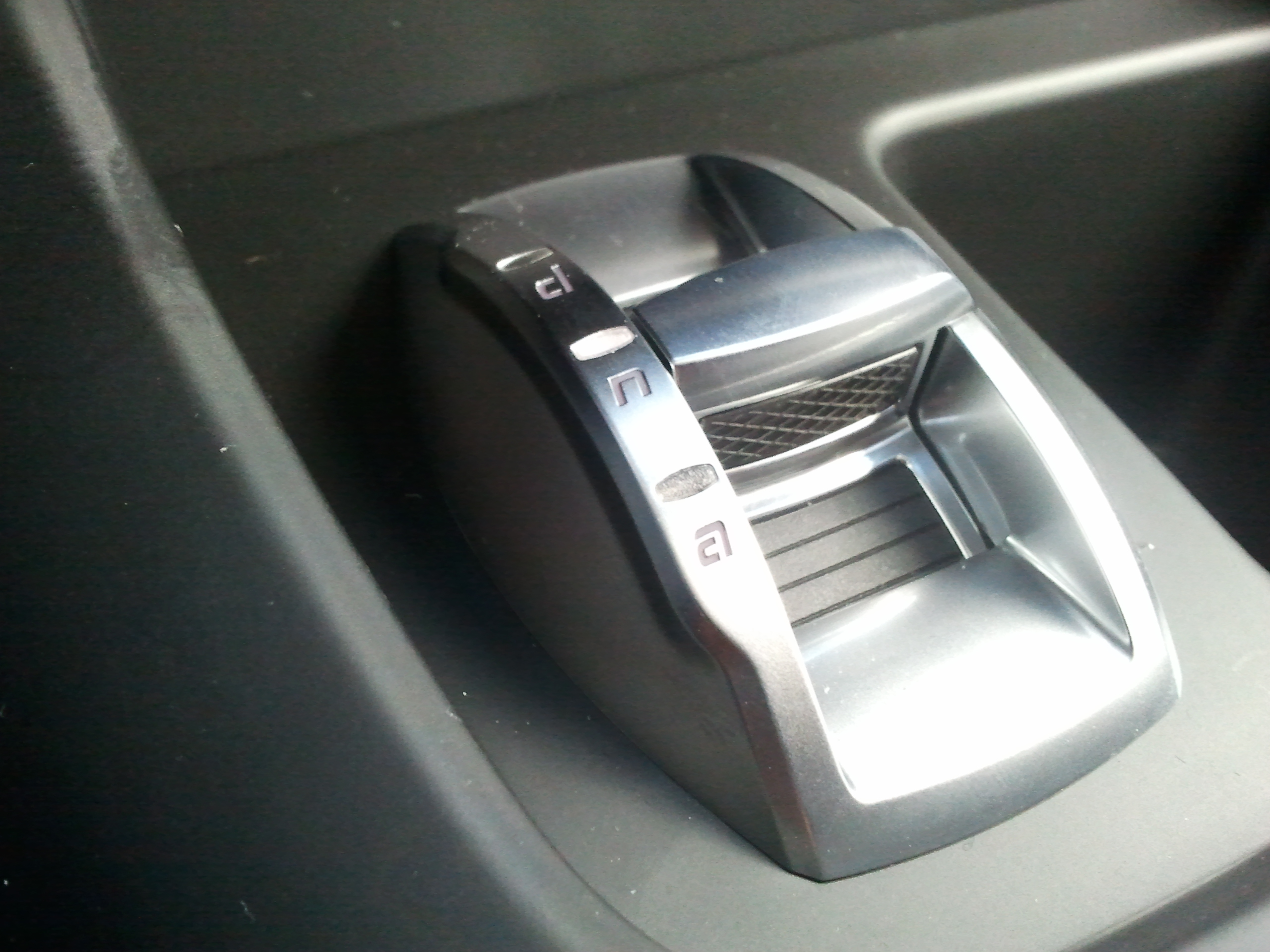 Alfa Romeo´s DNA